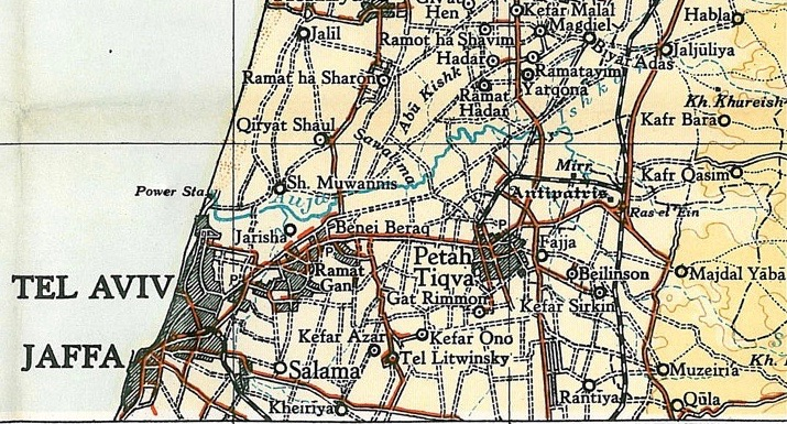 Petah Tiqva 1945 1:250,000